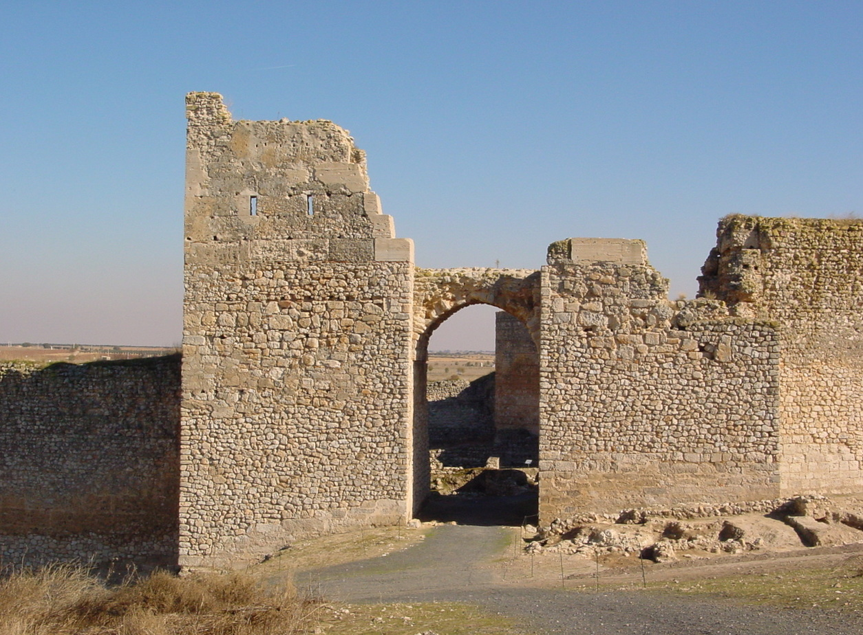 Calatrava la Vieja. Ciudad Real. Spain, View of the triumphal arch of the "alcázar" from the medina.